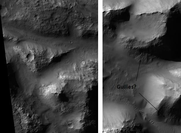 Atlantis Chaos, as seen by hirise. Location is 34.6 degrees south latitude and 182.7 degrees east longitude. Picture on right lies to the north or above other image. Image was taken by the Mars Reconnaissance Orbiter's HiRISE. The HiRISE camera was built by Ball Aerospace and Technology Corporation and is operated by the University of Arizona. Image courtesy NASA/JPL/University of Arizona.